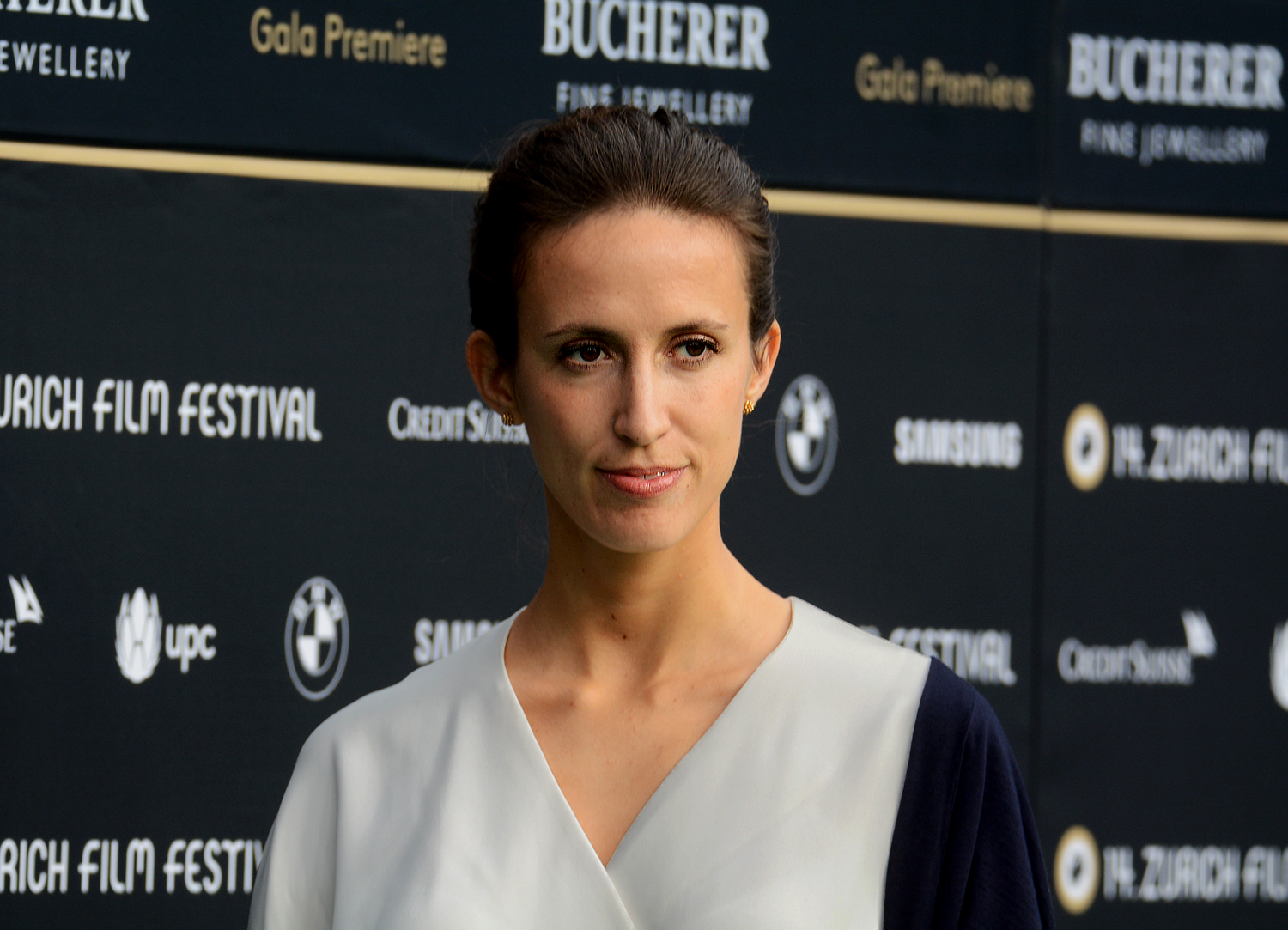 Swiss director, writer, editor and photographer Annie Gisler attends the "La petit mort/The little death" photocall during the 14th Zurich Film Festival on October 2, 2018 in Switzerland.